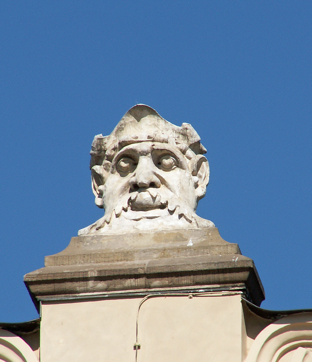 Mascaron (e), 1558 desig. by Santi Gucci, Sukiennice, 3 Main Market square, Old Town, Krakow, Poland